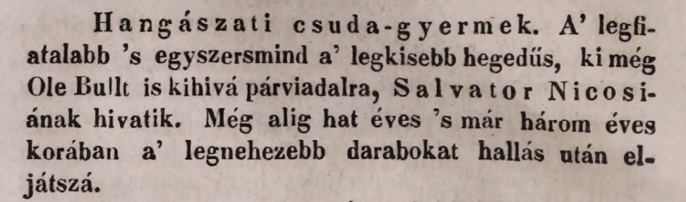 Information about a child prodigy